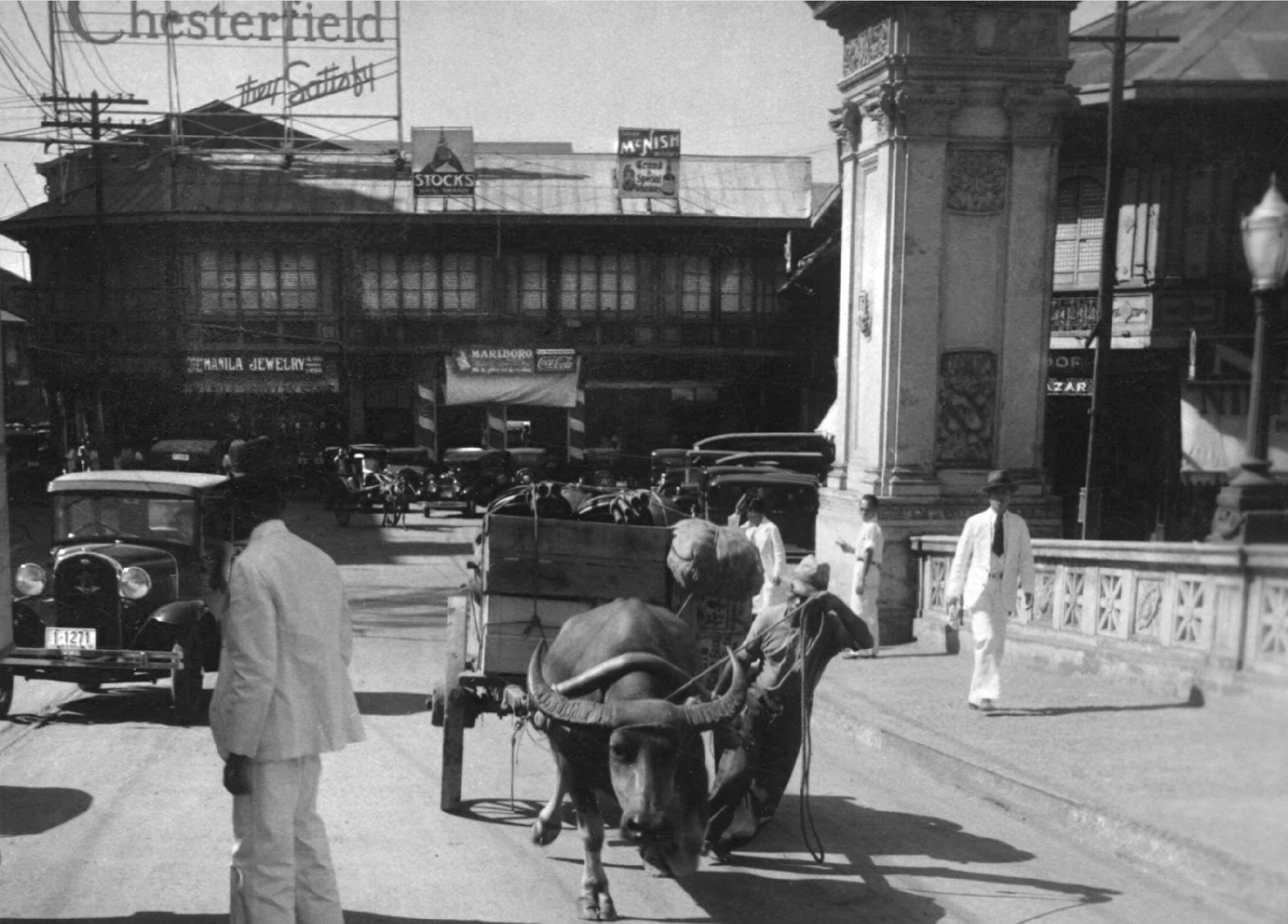 walking to the beautiful old Jones bridge Manila